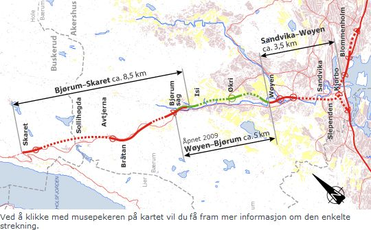 E16 road construction plans, Bærum-Hole